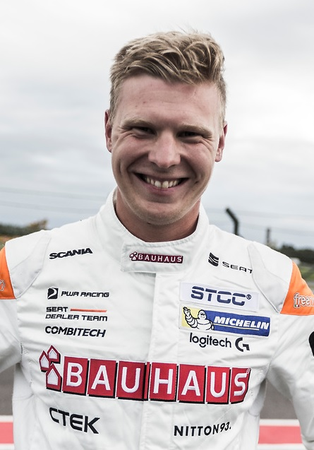 Swedish racing driver Johan Kristoffersson.